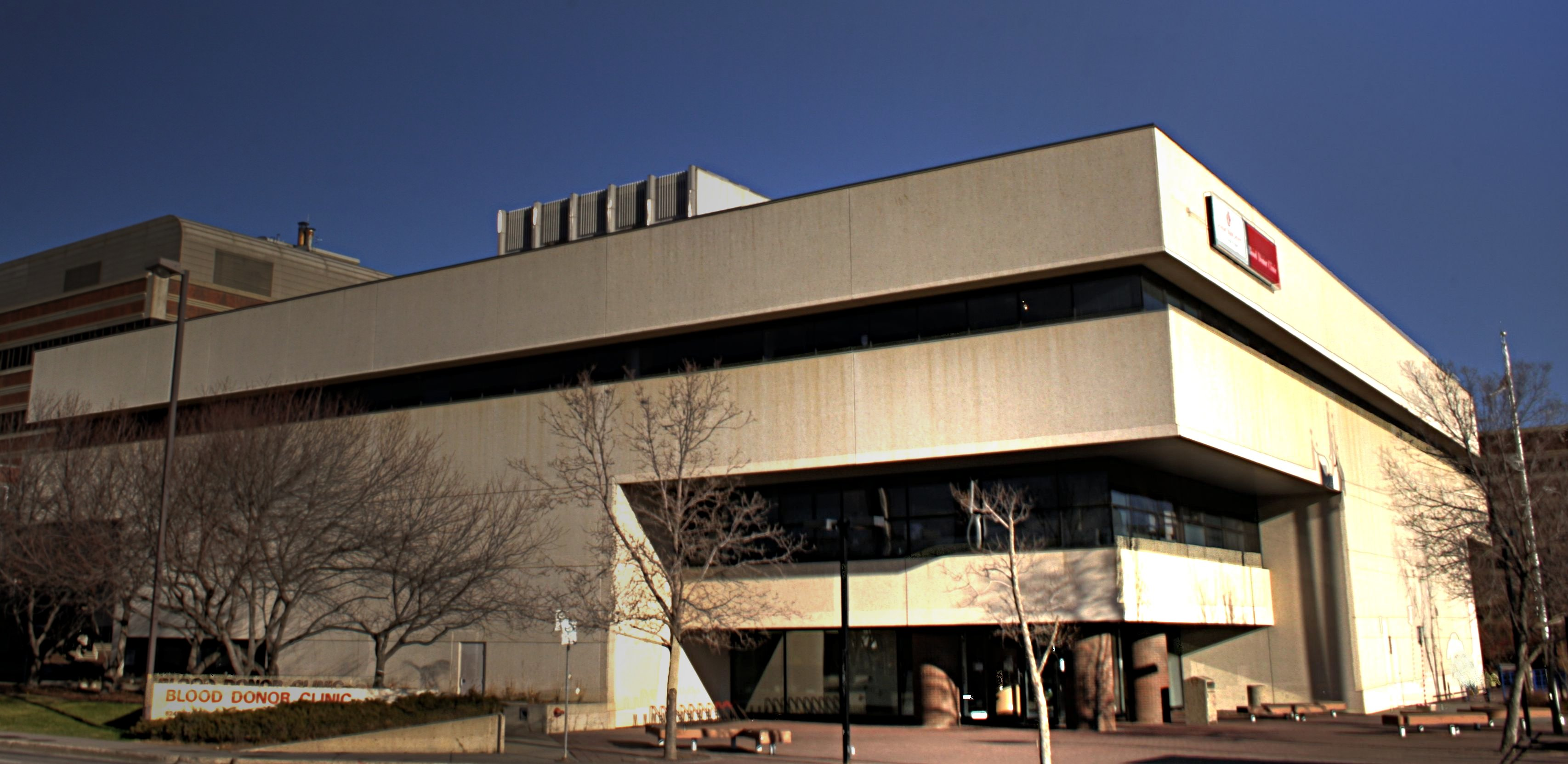 The Canadian Blood Services building in the medical complex south of the University of Alberta, Edmonton, Alberta, Canada.